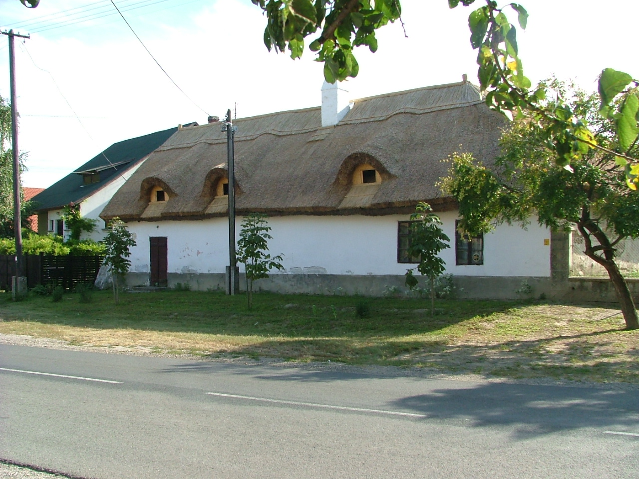 Roadhouse in Koroncó